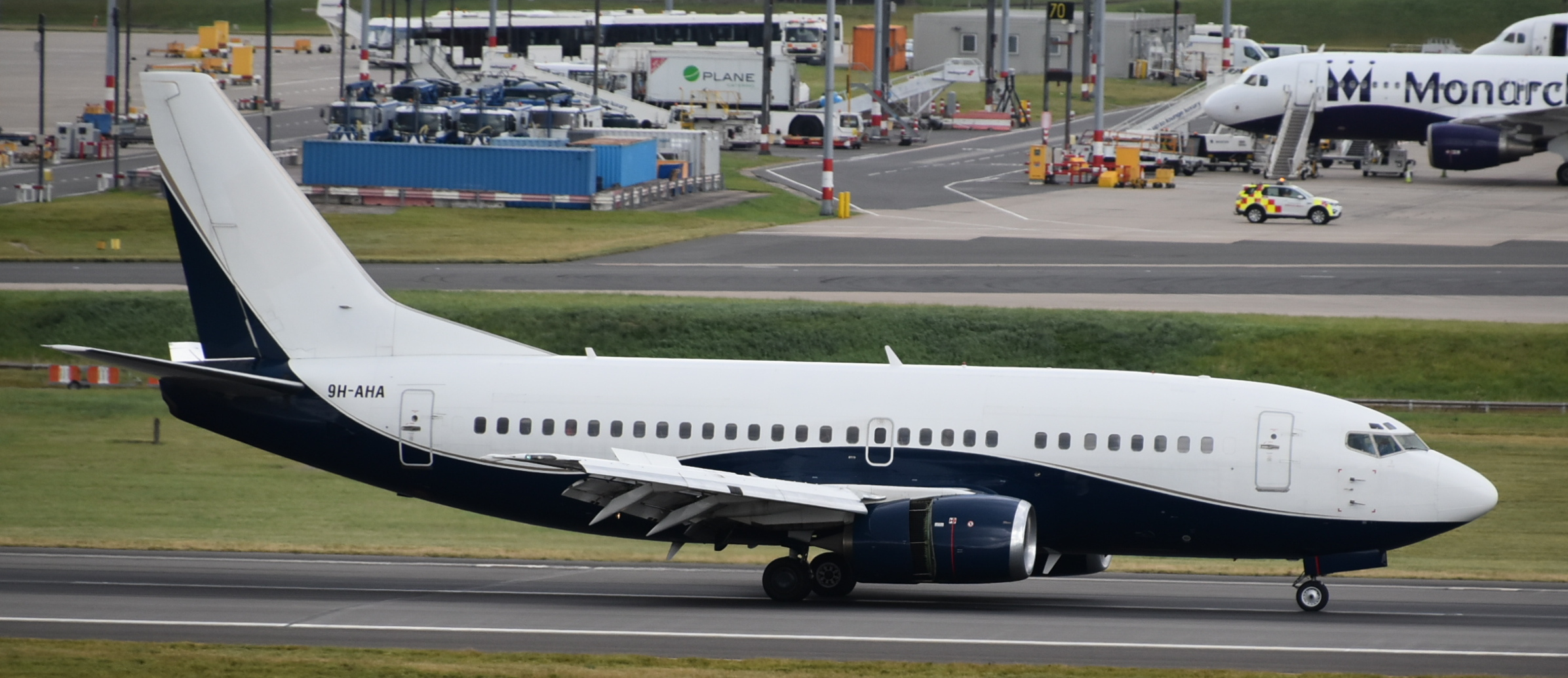 Boeing 737/5 of Air X Charter arriving rwy.15 at Birmingham-BHX, 03/08/16.